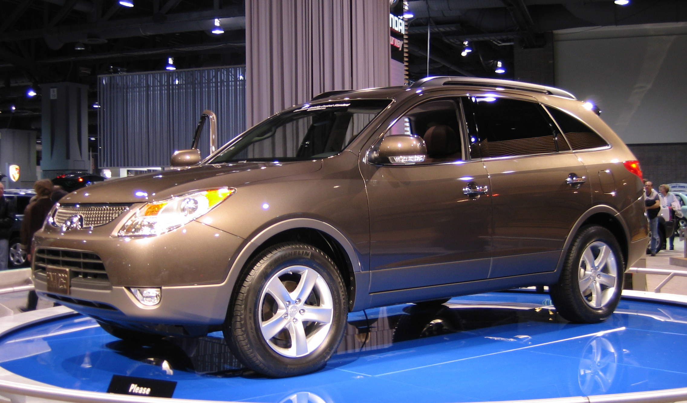 Hyundai Veracruz at the 2007 Washington Auto Show